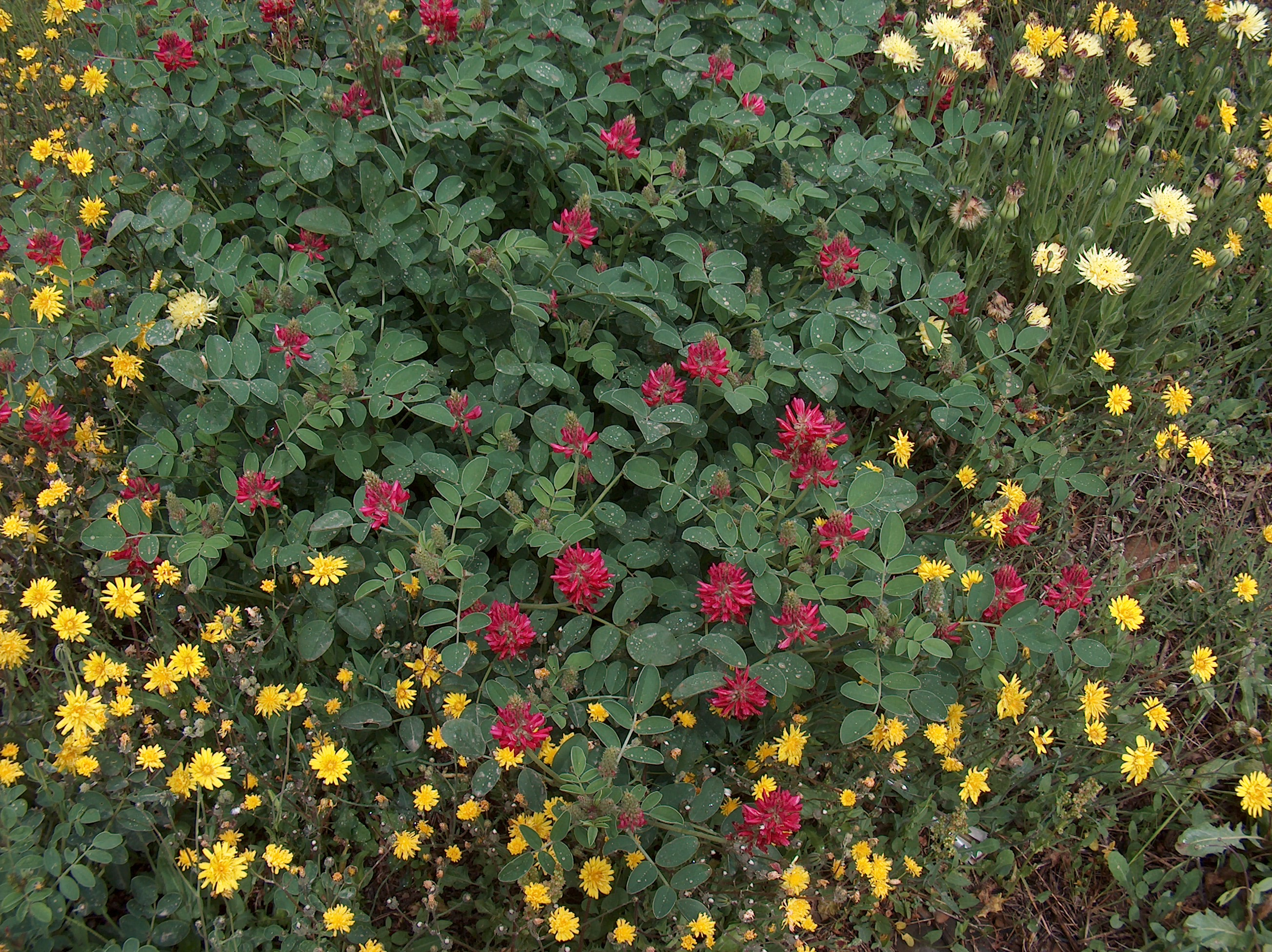 Plant of Hedysarum coronarium. Place: near Domusnovas (Sardinia, Italy)